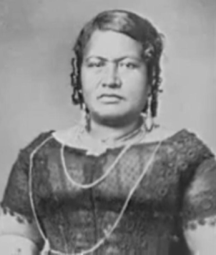 Kalama Hakaleleponi Kapakuhaili (1817–September 20, 1870) was a Queen consort of the Kingdom of Hawaiʻi alongside her husband, Kauikeaouli, who reigned as King Kamehameha III.